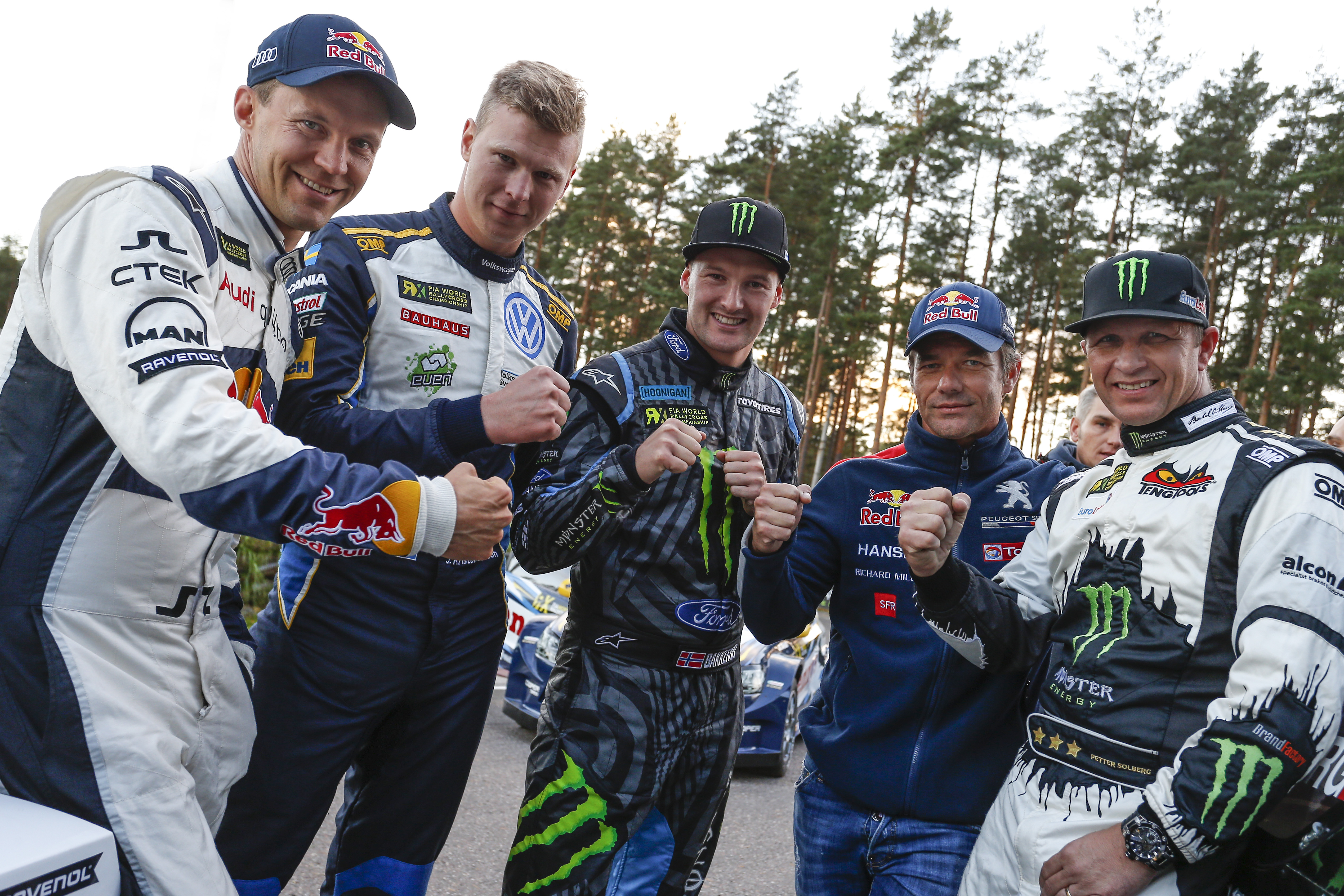 2016 FIA World RX Rallycross Championship / Round 10, Riga, Latvia, October 1-2 2016 // Worldwide Copyright:Tony Welam/EKS/McKlein